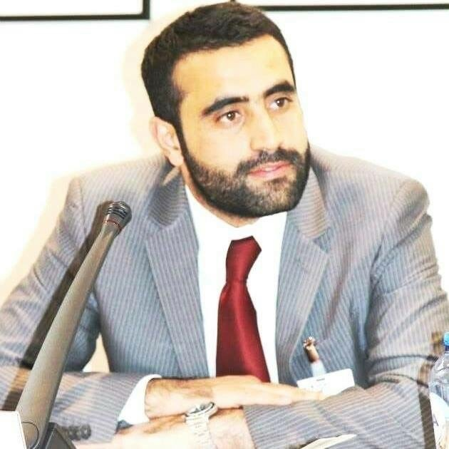 Masood Azizi 2013